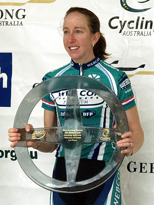 American cyclist Katheryn Curi Mattis (Webcor Builders Cycling Team) on the podium having won the 2008 Geelong World Cup, Geelong, Australia.